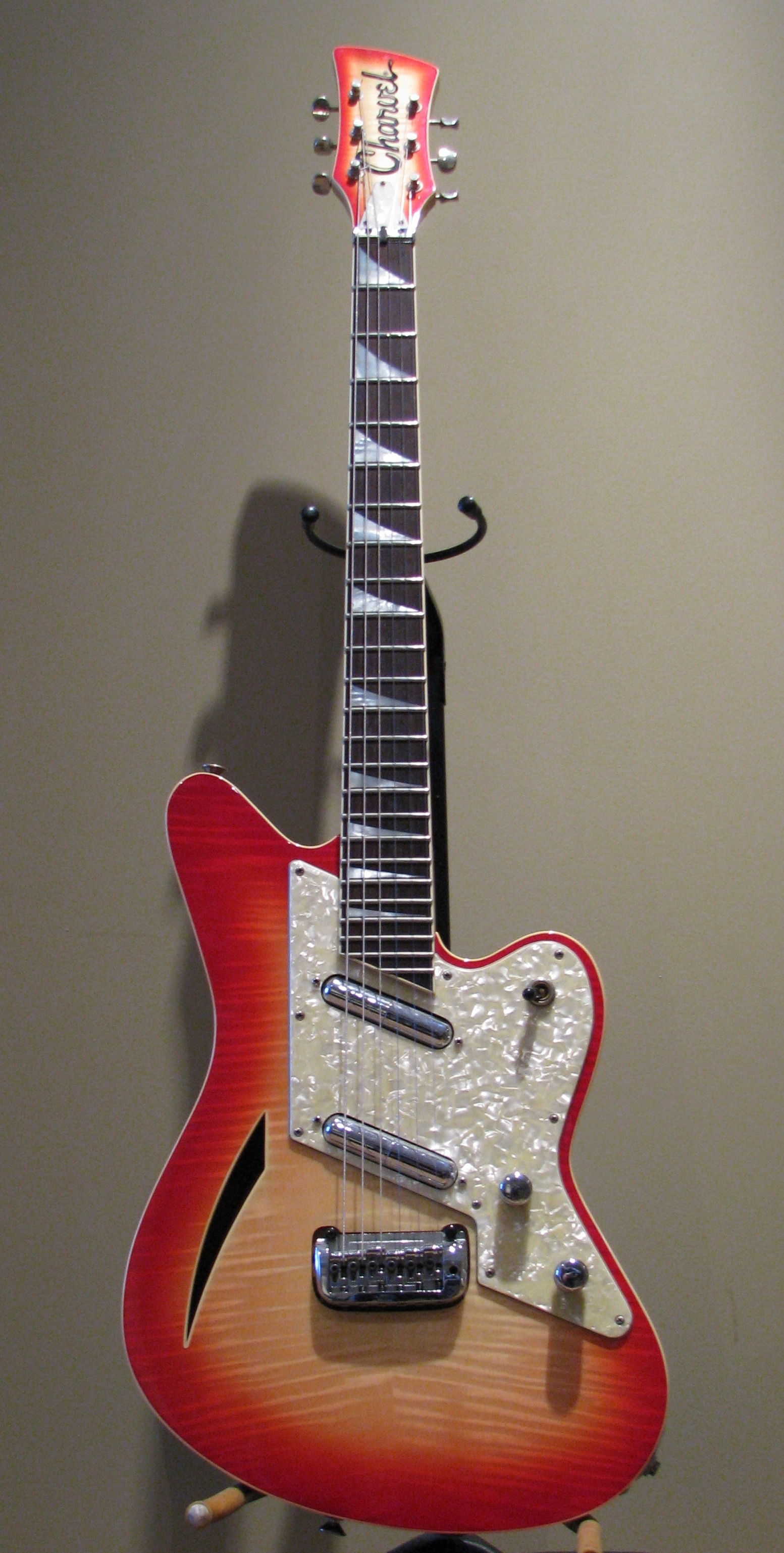 author=Lee Bowie